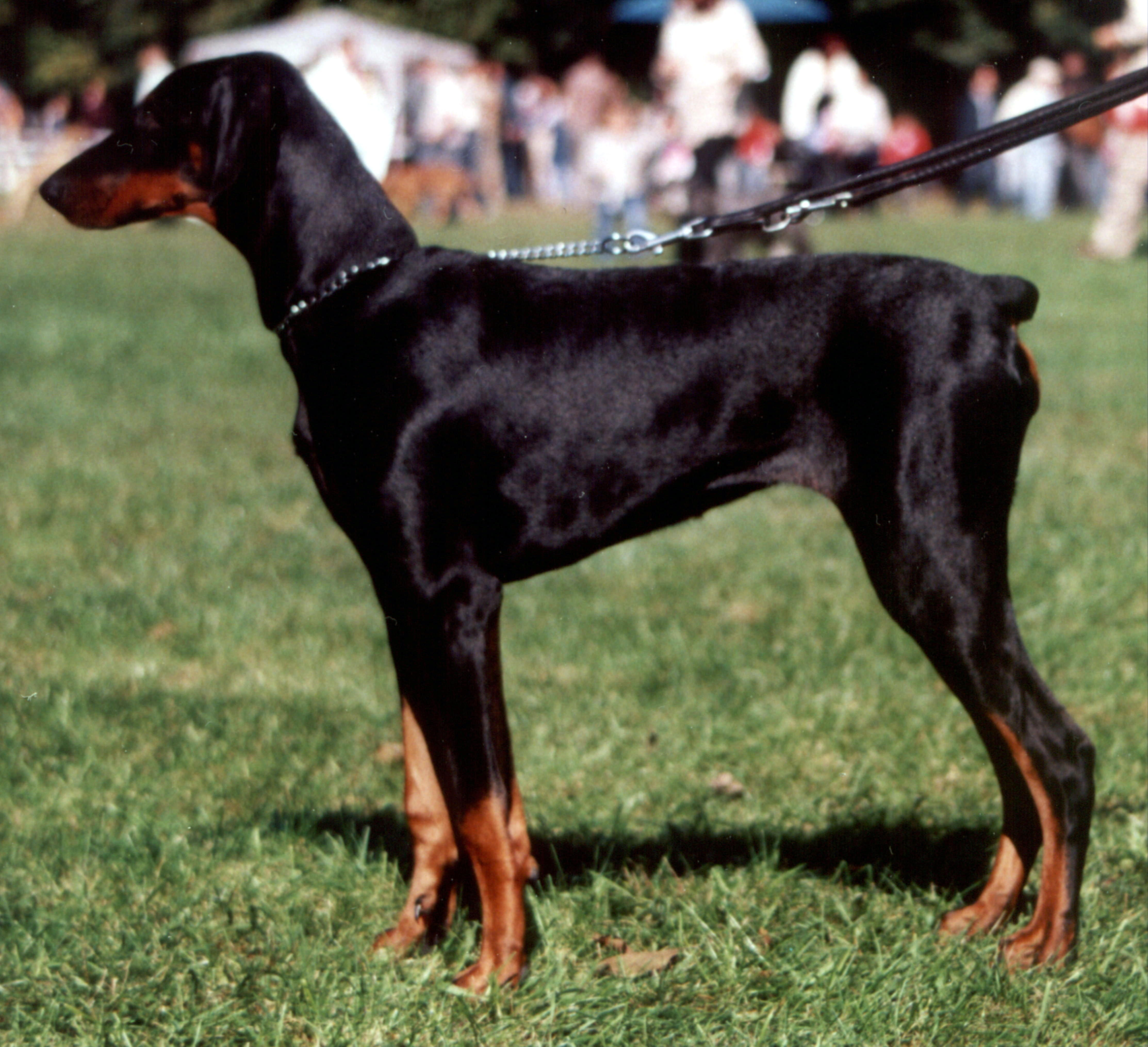 author: Pleple2000 19:41, 30 October 2005 (UTC)